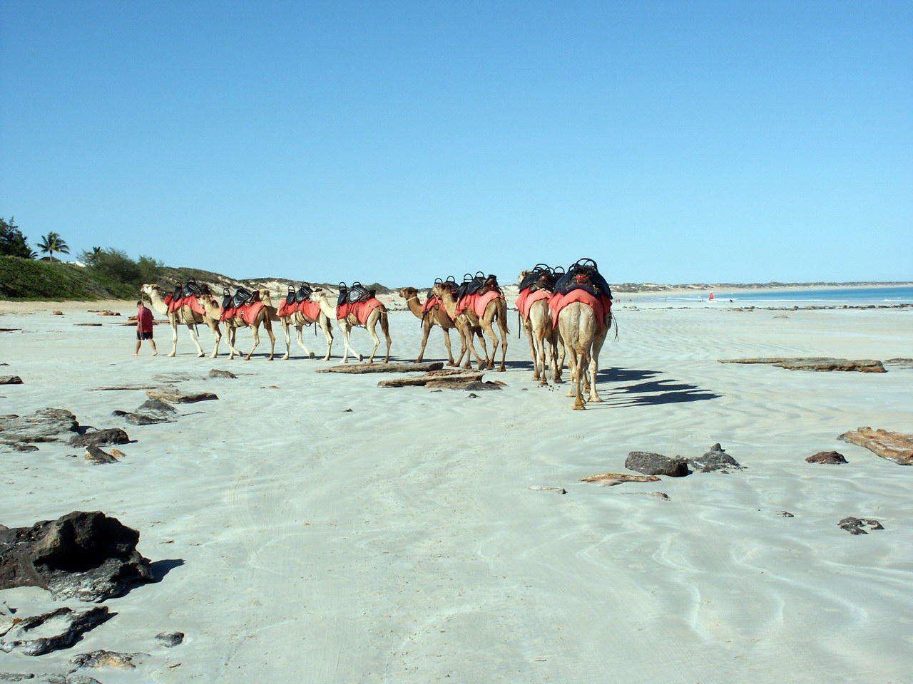 Cable Beach, Broome, Western Australia.